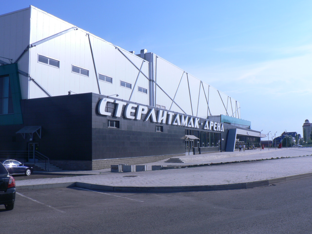 Sterlitamak-Arena Sports Centre on Kommunisticheskaya Street in Sterlitamak, Bashkortostan, Russia